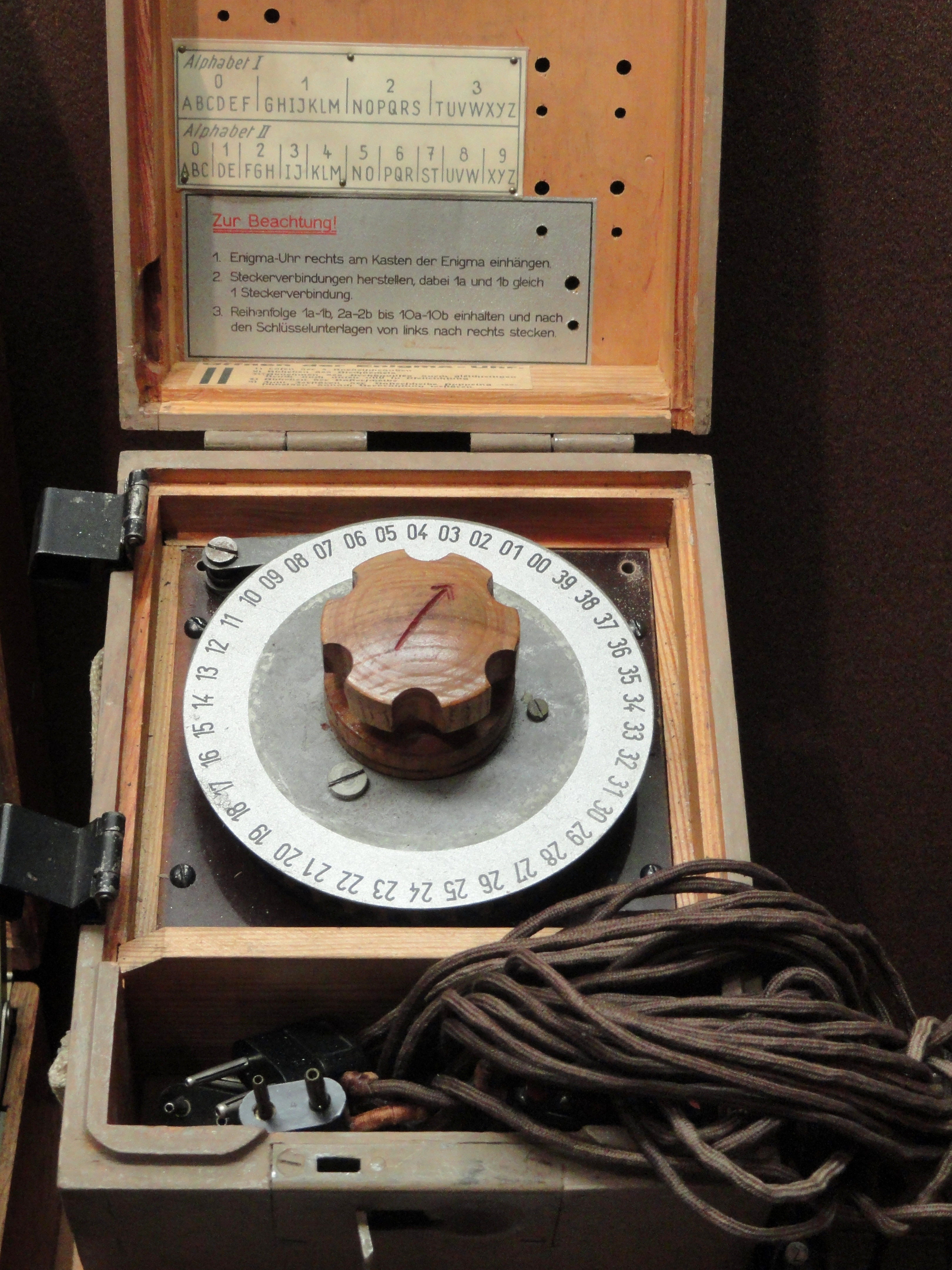 Exhibit in the National Cryptologic Museum, Fort Meade, Maryland, USA. All items in this museum are unclassified; items created by the United States Government are not subject to copyright restrictions.